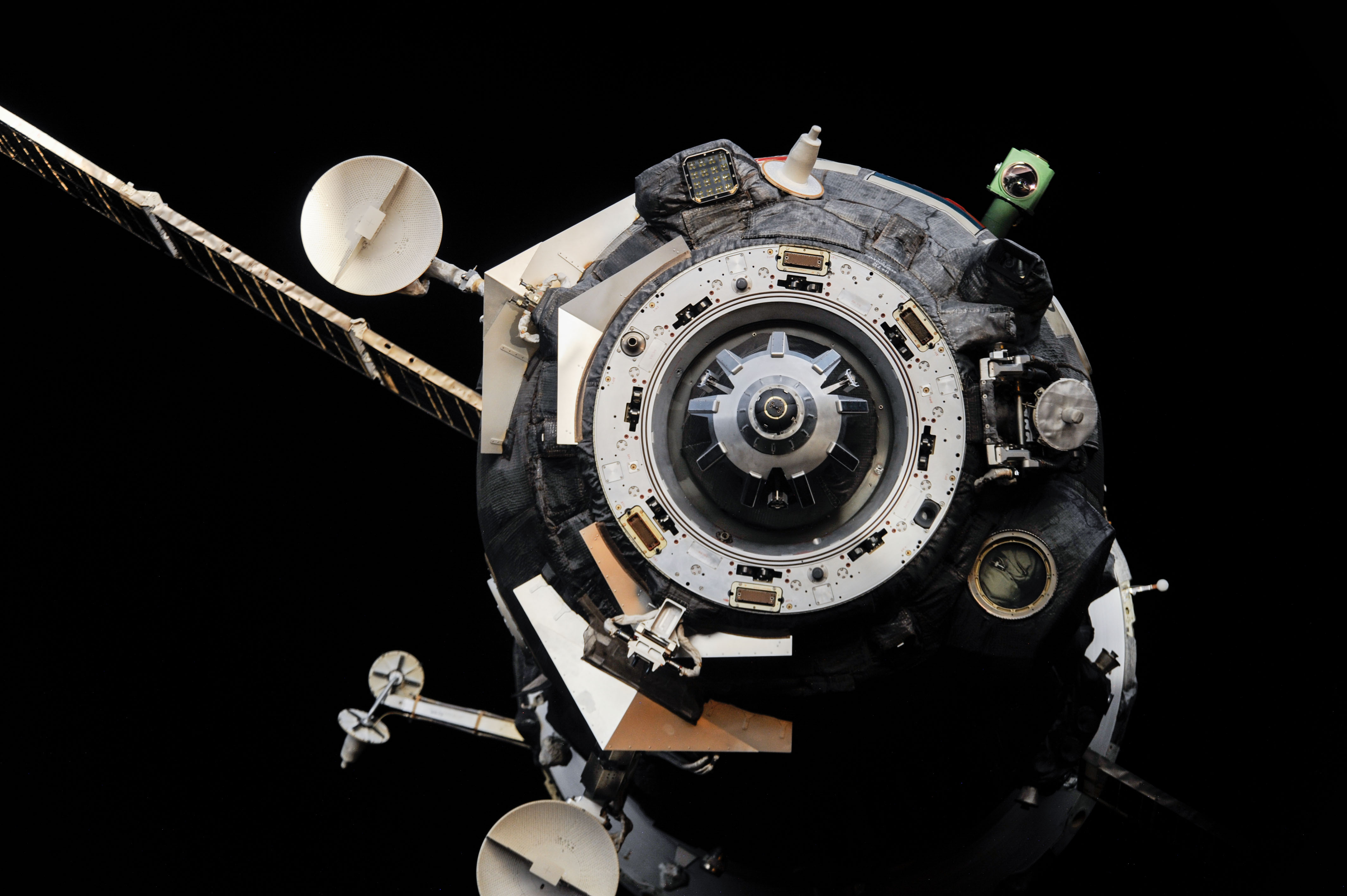 The Soyuz TMA-16M spacecraft was photographed shortly after undocking on Sept. 11, 2015. The vehicle landed several hours later returning Russian cosmonaut Gennady Padalka, ESA (European Space Agency) astronaut Andreas Mogensen and Kazakh cosmonaut Aidyn Aimbetov to Earth.